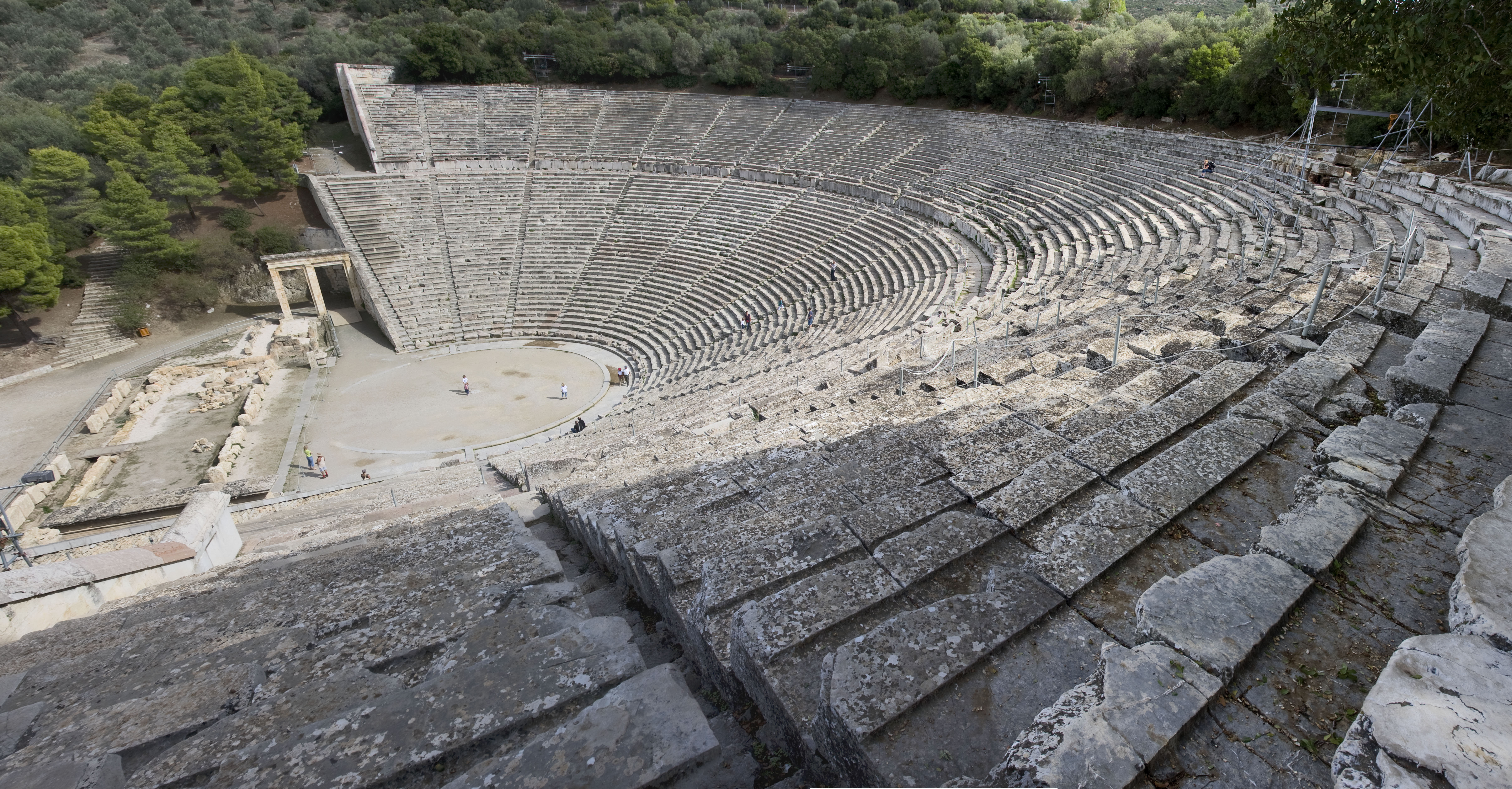 Epidaurus